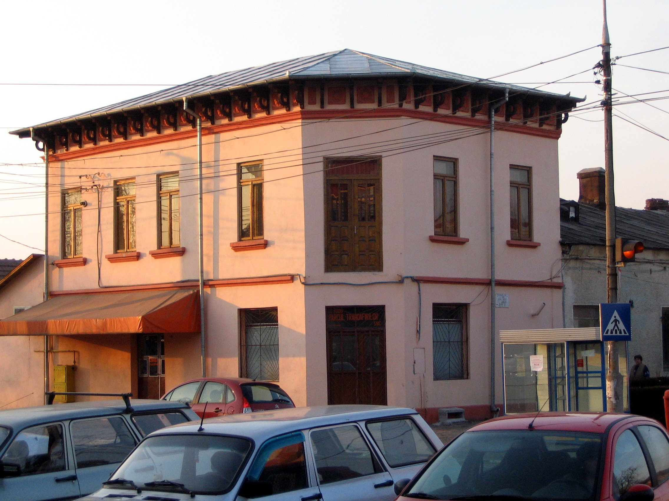 The house in Buzău where Ion Luca Caragiale owned a restaurant circa 1895